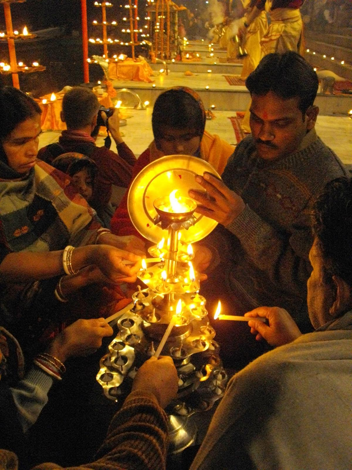 Multi-tiered aarti stand being lit, during Ganga Aarti, Varanasi.